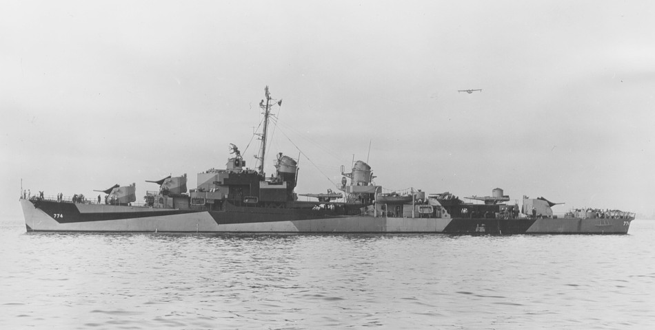 The U.S. Navy destroyer USS Hugh W. Hadley (DD-774) after completion in the outer harbour of San Pedro, California (USA), on 11 December 1944. The ship is painted in camouflage Measure 32 Design 25D. Note the Consolidated PBY Catalina in the background.